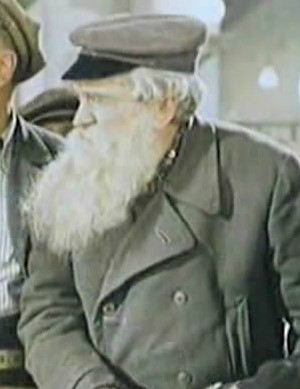 Sergei Antimonov as a passenger in The Train Goes East (1947)